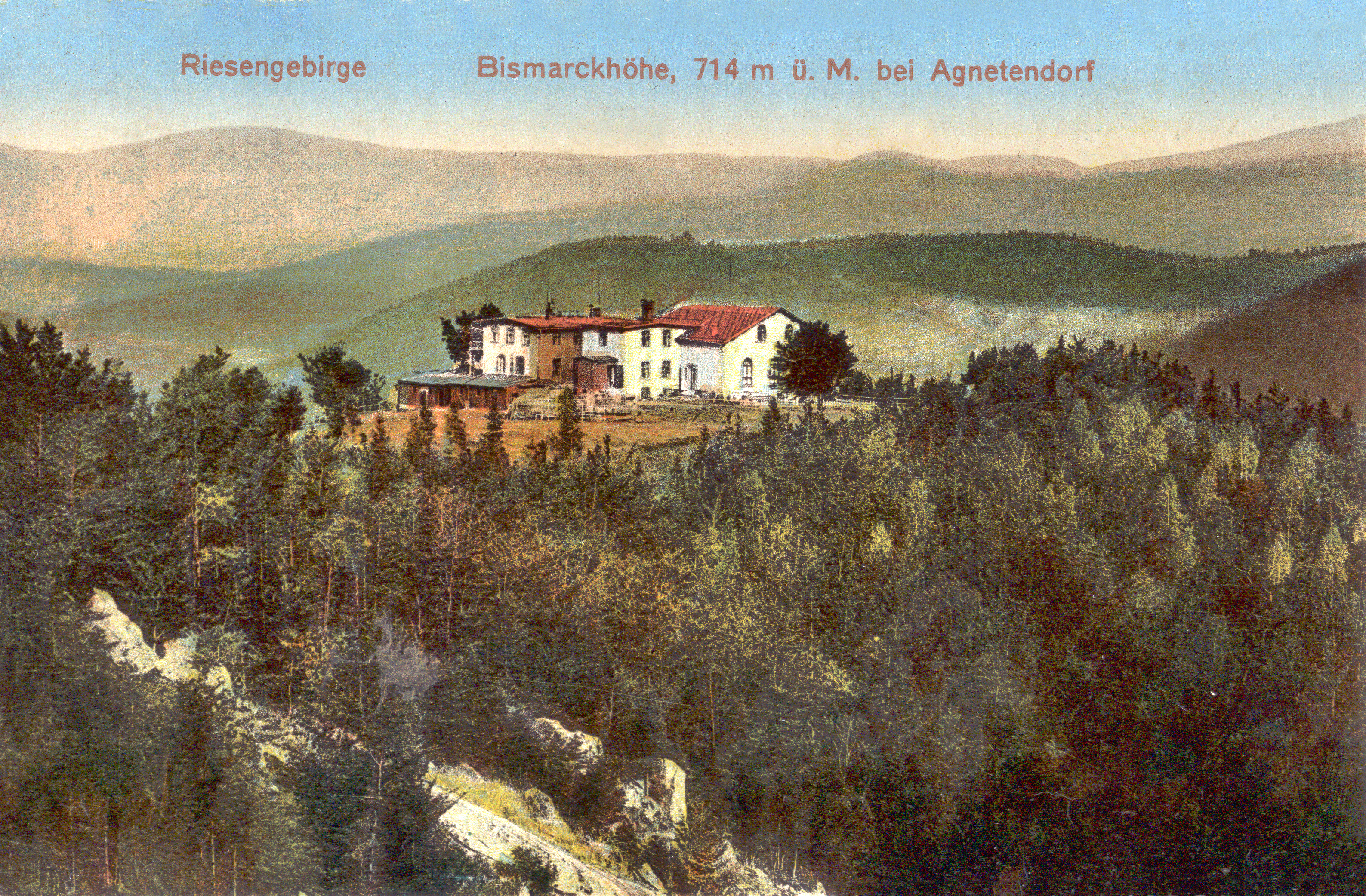 Grzybowiec, Jagniątków near Jelenia Góra, Germany now Poland.